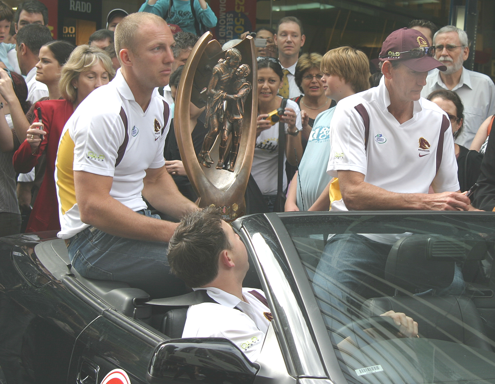 Captain and Coach of winning National Rugby League Grand final